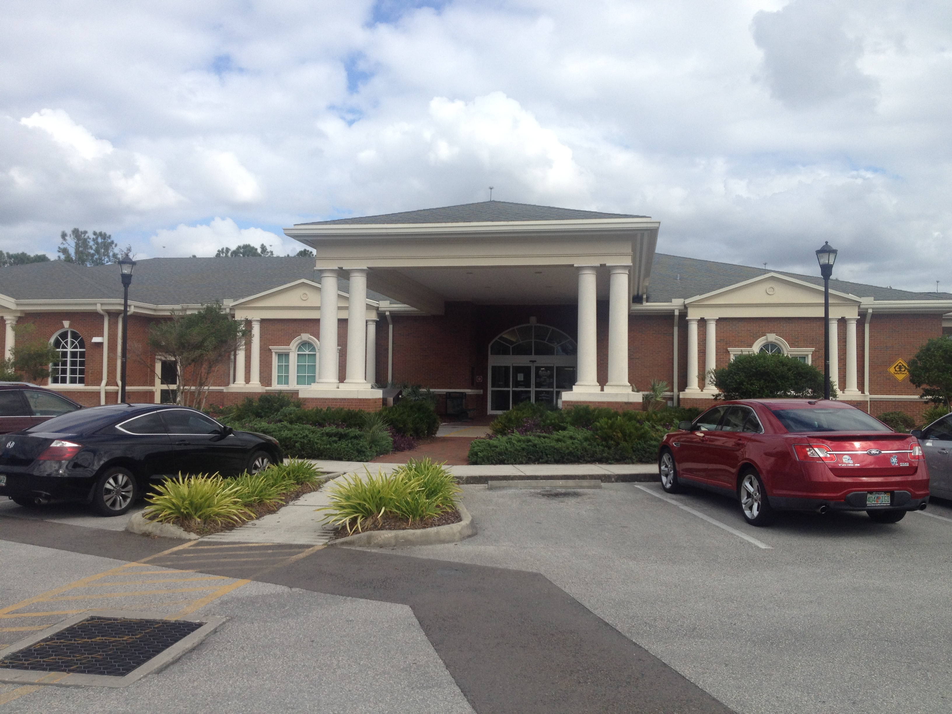 This is the front of the Upper Tampa Bay Regional Public Library in Tampa, Florida